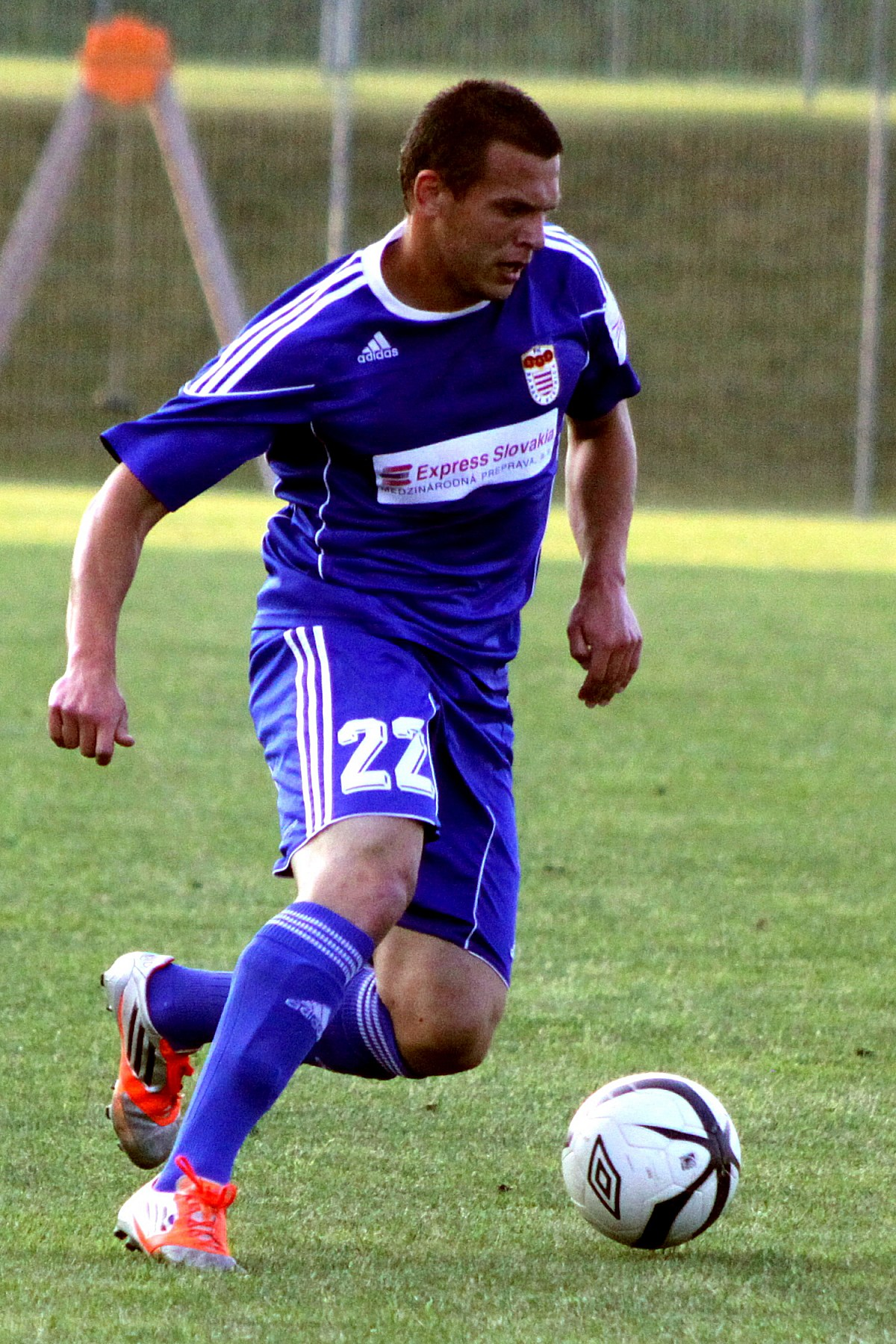 Friendly match SV Mattersburg vs FK Dukla Banská Bystrica (2:2) at 2013-06-21 in Mattersburg. – The photo shows Fabián Slančík (FK Dukla Banská Bystrica).